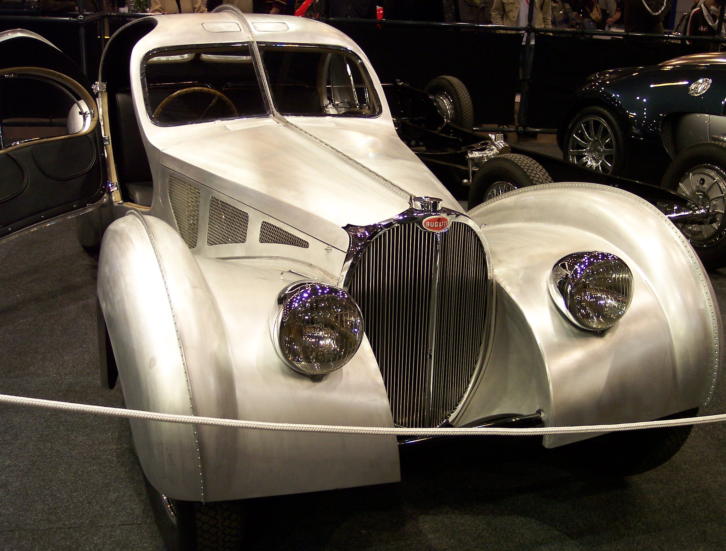 Replica of a Bugatti Type 57 Coupé.